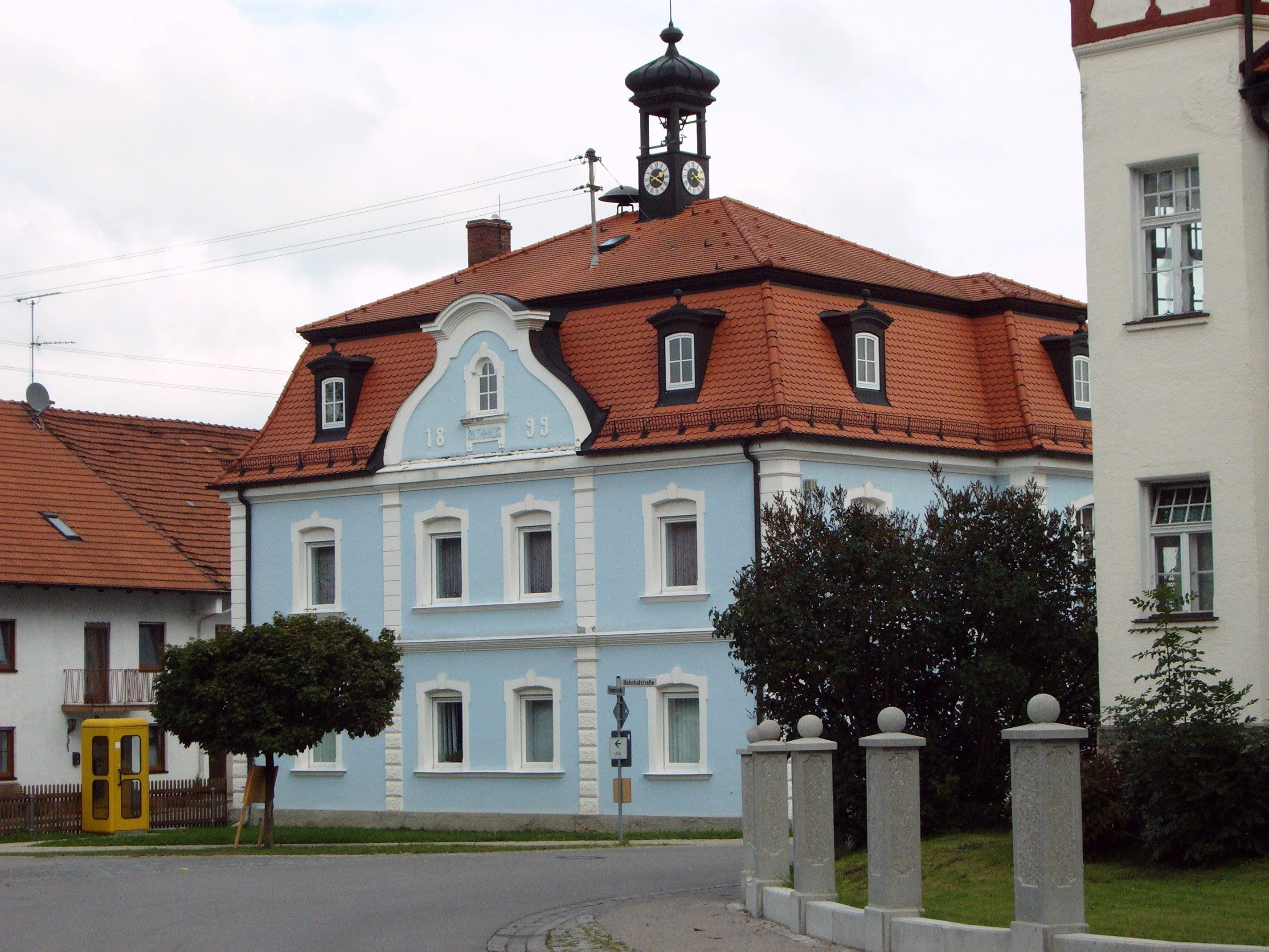 Leeder (Fuchstal), exterior view of the town hall from south-west.